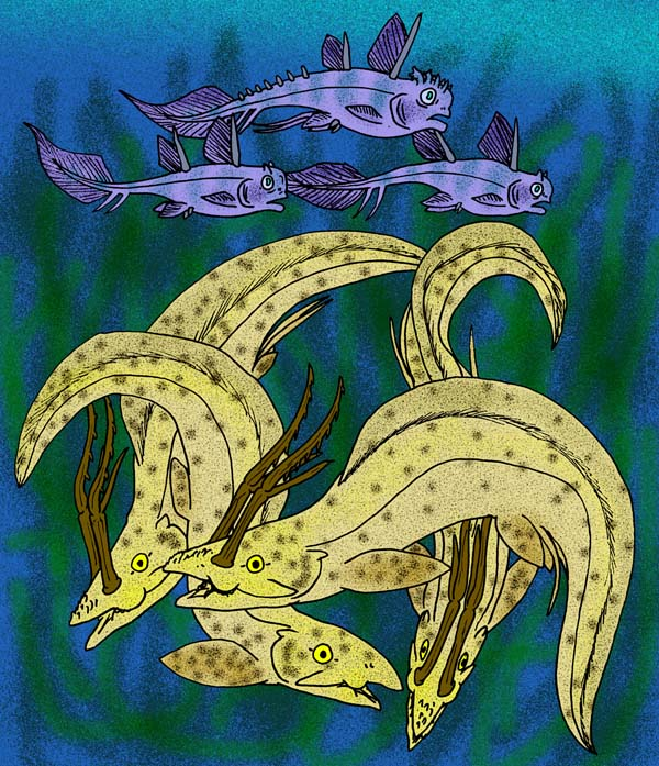 Reconstructions of the prehistoric cartilaginous fish Echinochimaera meltoni (top) and Harpagofututor volsellorhinus from the Carboniferous Bear Gulch lagerstatten.